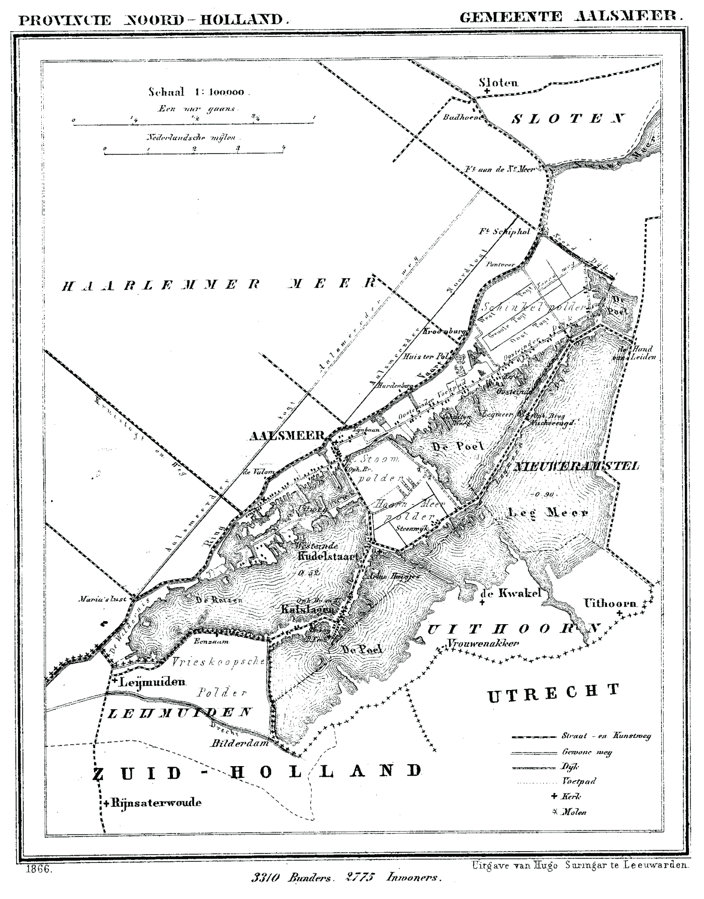 Historic map of Aalsmeer, North Holland, the Netherlands